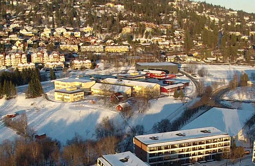 Voksen skole seen from the air